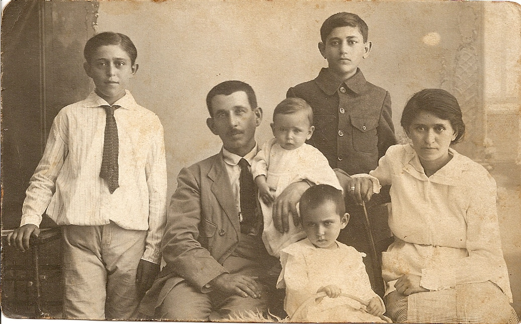 Family picture of Eliyhu Levitsky and Sara Kushnir, members of the Second Aliya, whith their Sabre children.